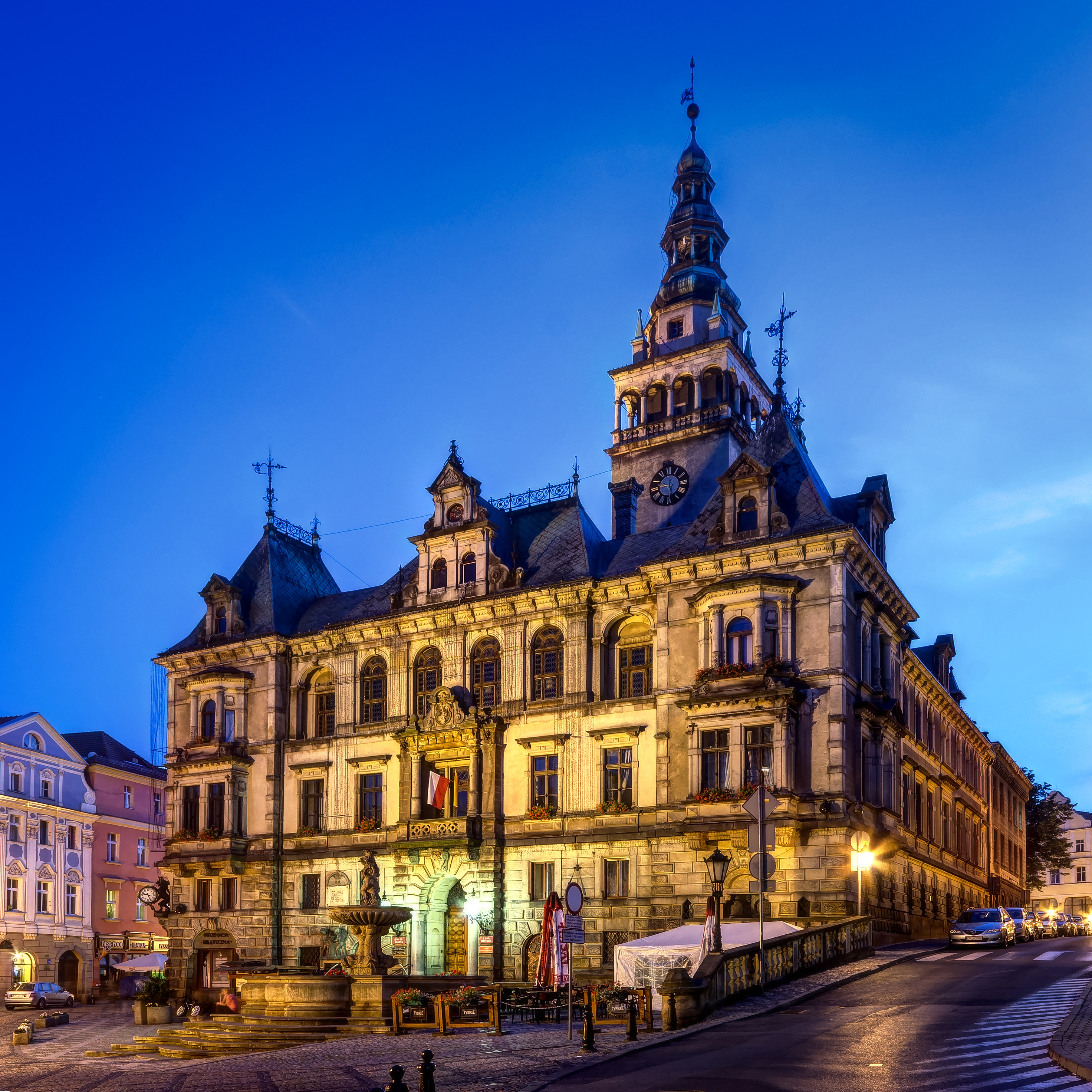 Town Hall in Klodzko (Poland)